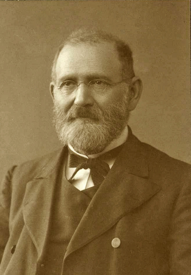 Picture of Joseph Massel